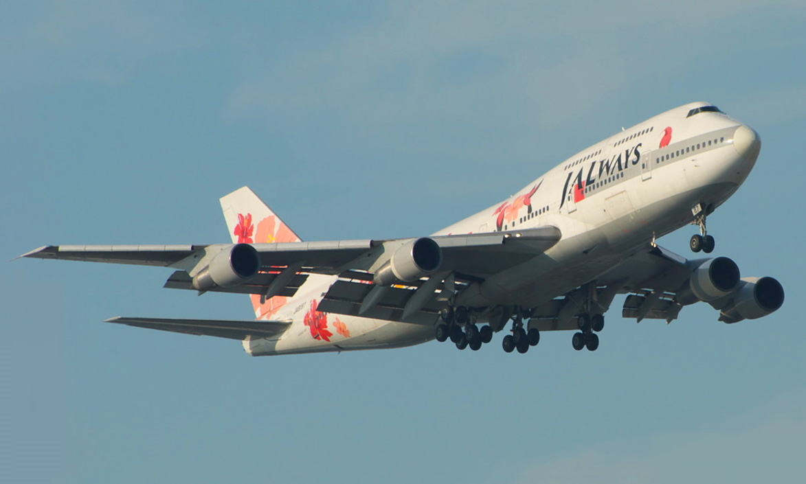 JAL Boeing747-346(JA8187) is approach to runway 16L of Tokyo international airport. It taken on the park of Keihinjima island in Tokyo, Japan. ?????????????????????C????????JAL?B747-346?????? ?????????????????????????????????????????????????